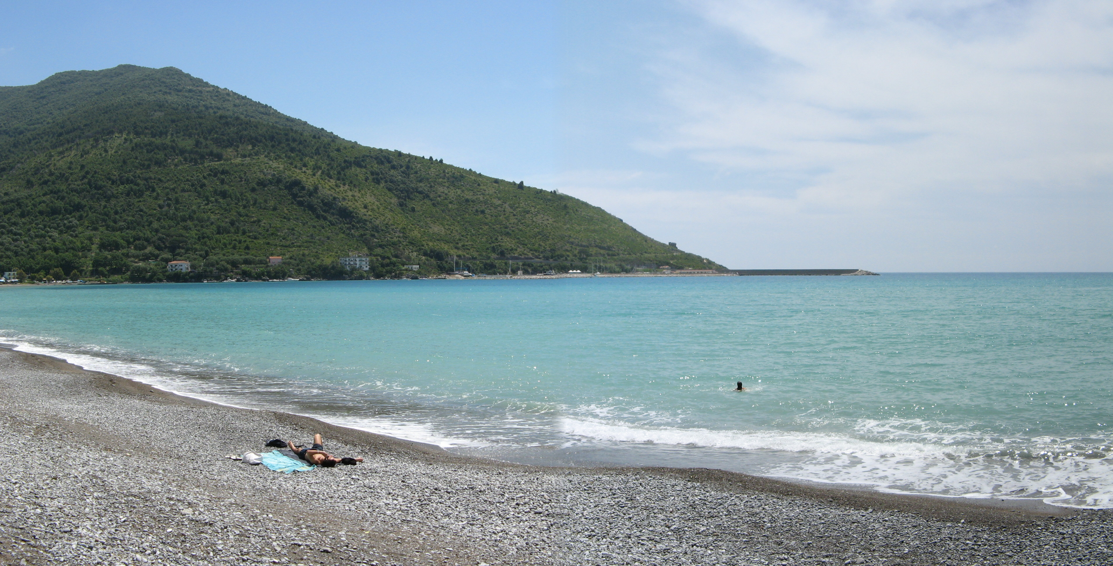 Sapri, beach